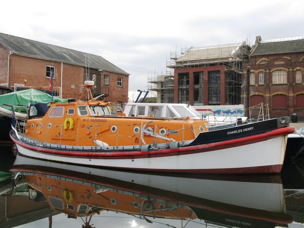 48-12 RNLB Charles Henry, a 48 foot Oakley Class lifeboat built in 1968. It was stationed at Selsey from 1969 to 1983 and then at Baltimore from 1984 to 1987. It is now privately owned and seen in the City Basin at Exeter, Devon, England.